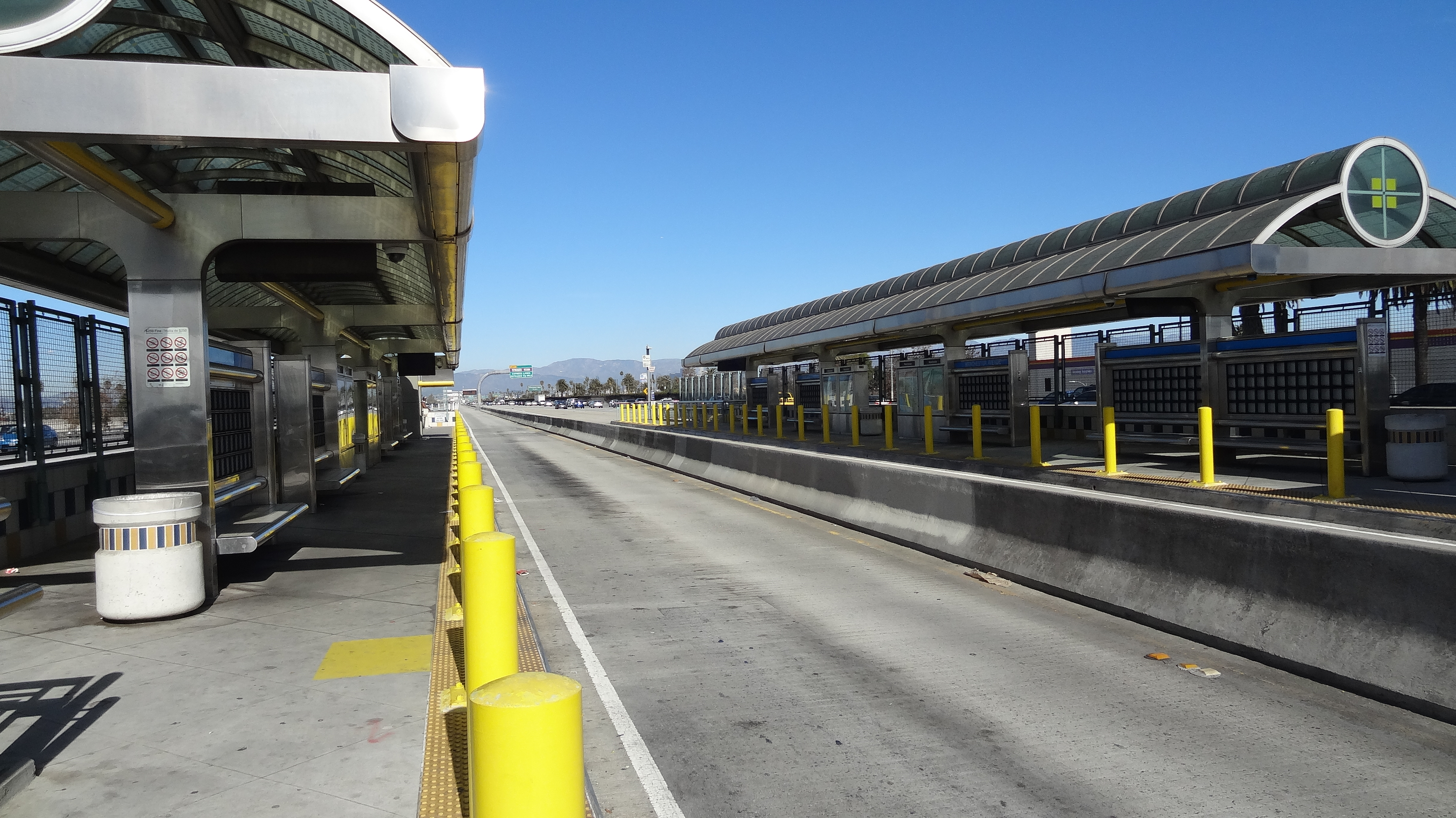 Manchester Silver Line station on the Harbor Transitway.